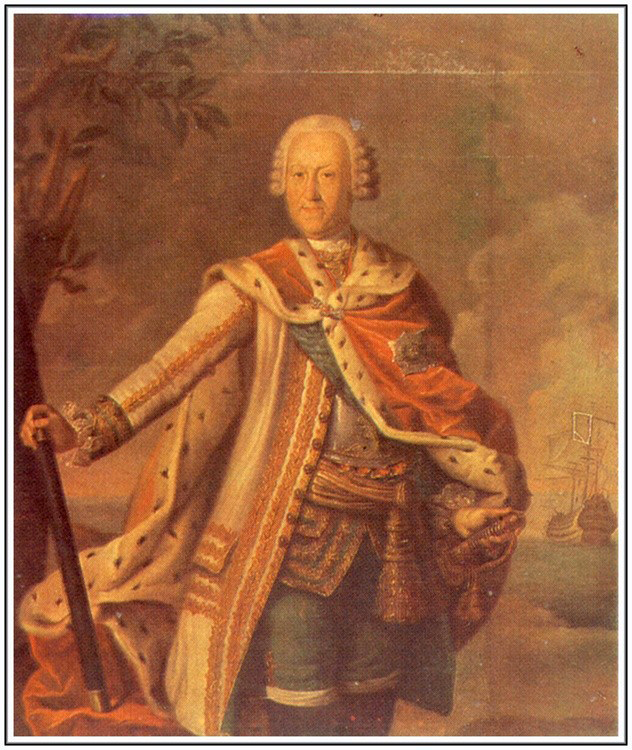 Mikhail Mikhailovich Golitsyn